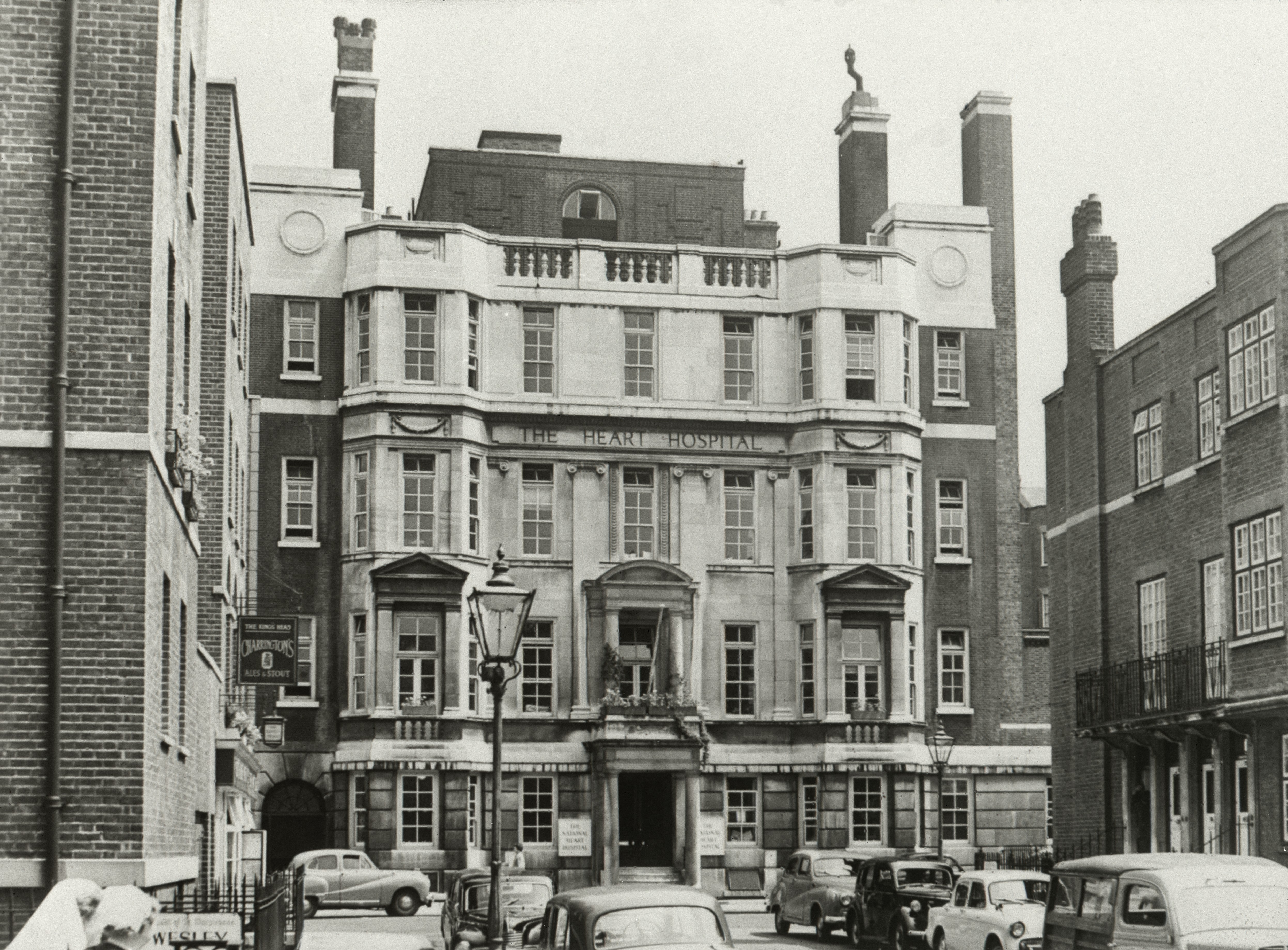 National Heart Hospital, Westmoreland Street, W1. Wellcome Images Keywords: Hospitals; Cardiology